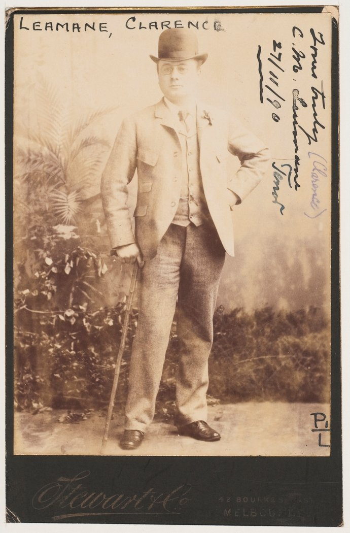 Photograph of Clarence M. Leumane in 1890